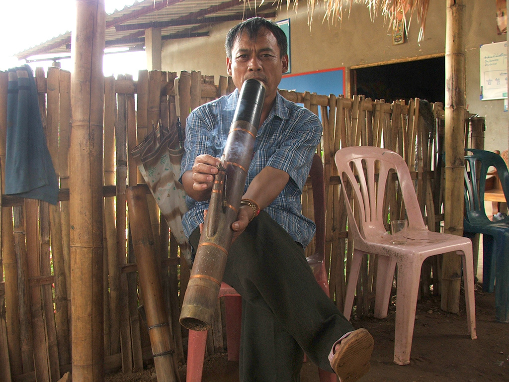 Up there they all smoke like that. Note that he is smoking a normal cigarette!